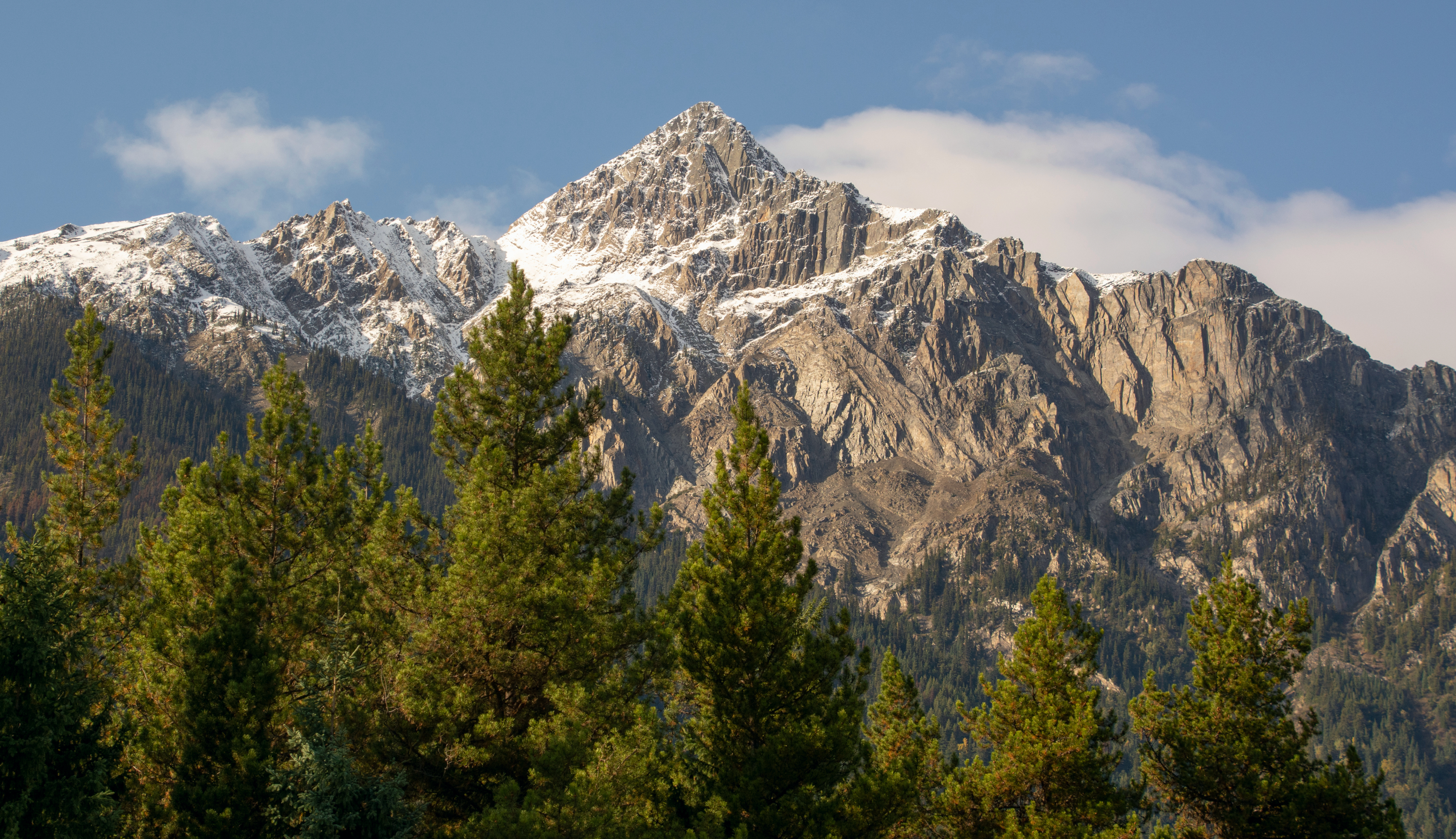 Cinnamon Peak in Canada